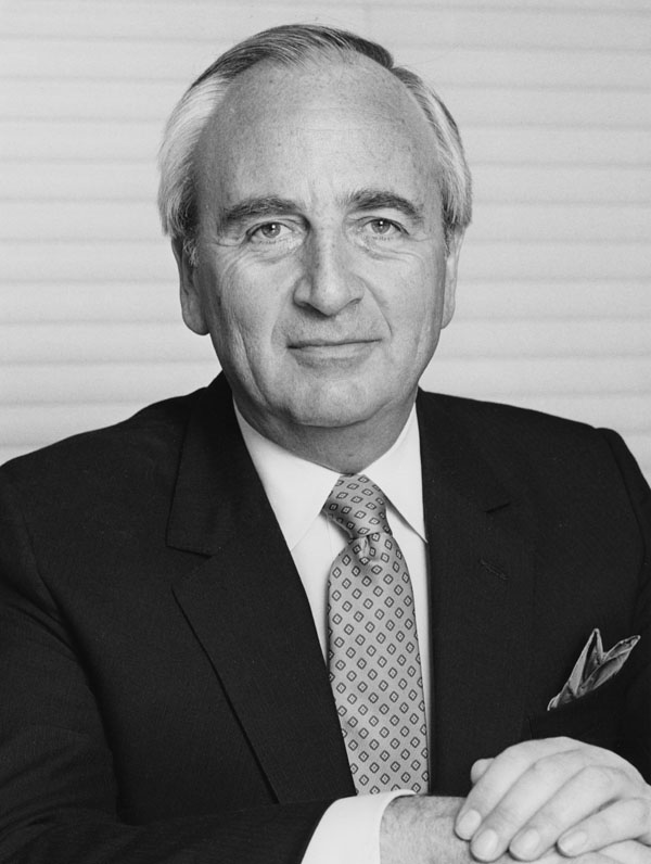 Lord Young of Graffham, c2000